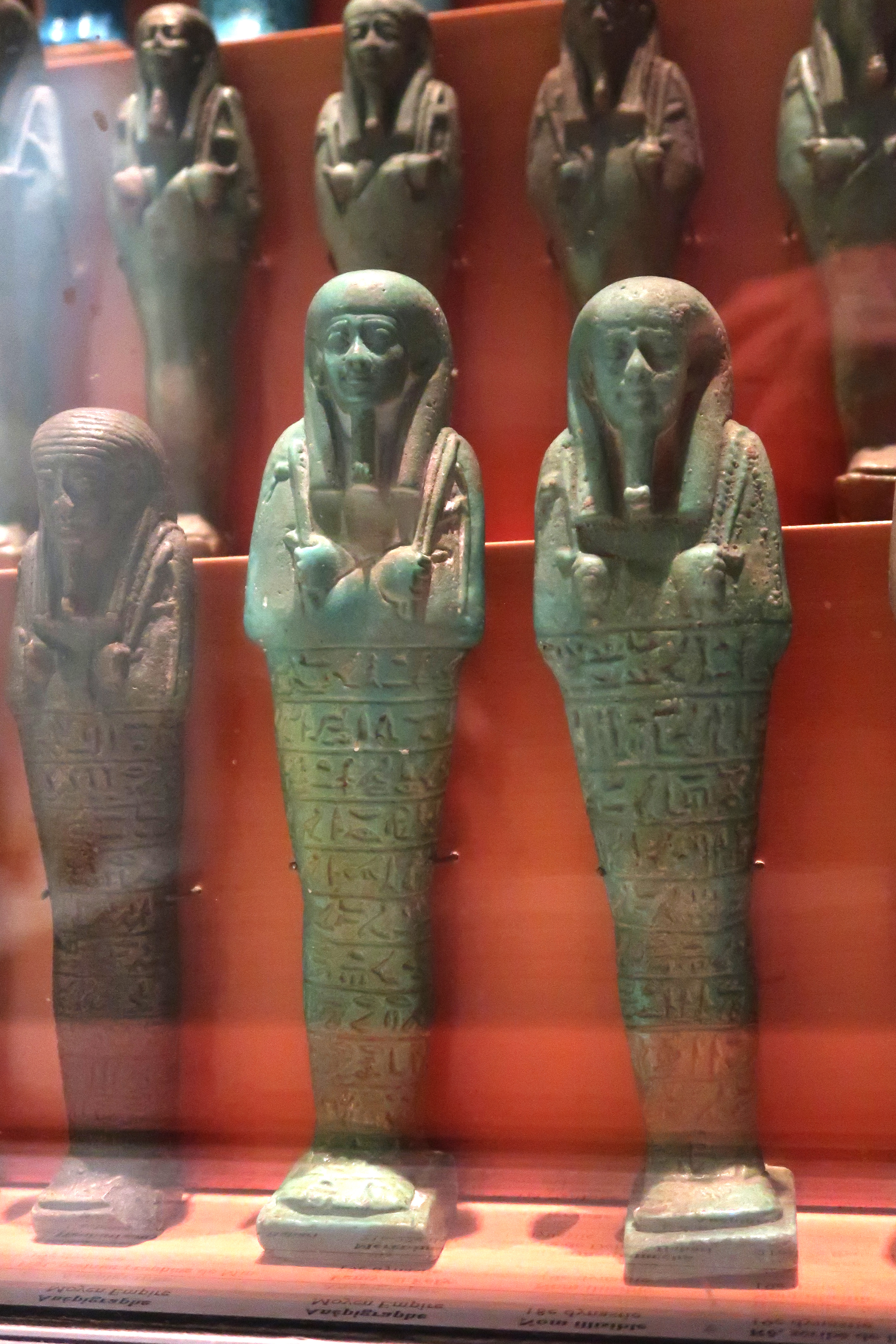 Ushabtis, funeral servants of the superintendent of the royal transport ships Tchaenhebou. XXVIth dynasty (reign of Amasis). Egyptian earthenware. Saqqarah. From left to right: inv. 1969-514: H. 18.4 cm; 1969-592: H. 17.6 cm. Lyon Museum of Fine Arts